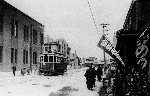 Train in Hakone Tozan Railway orbit line that starts in Odawara city